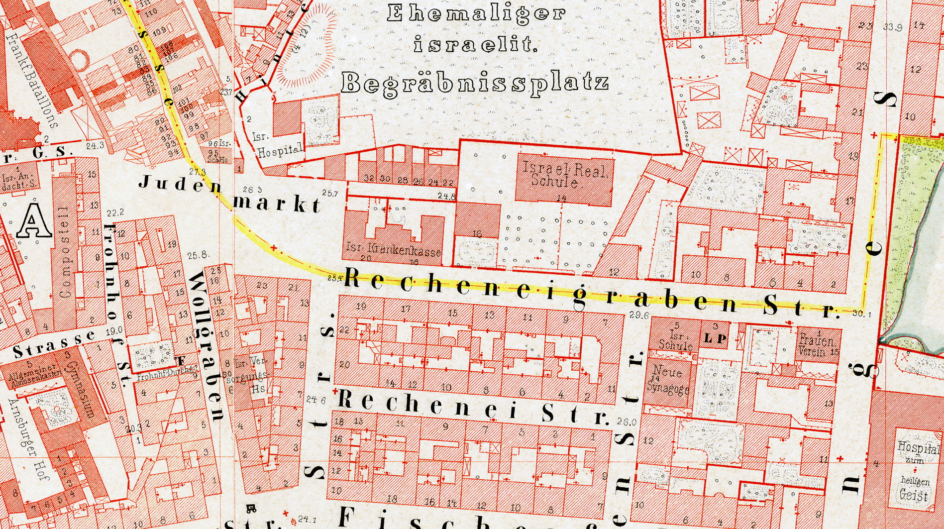 Crop of historical map of 1862, city of Frankfurt am Main, Hesse, Germany, focus on old jewish cemetery from 1180, Judengasse, Judenmarkt